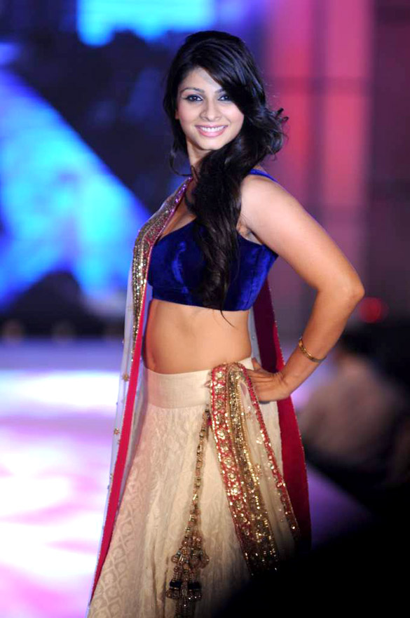 Tanisha Mukherjee walks for Manish Malhotra & Shaina NC's show for CPAA